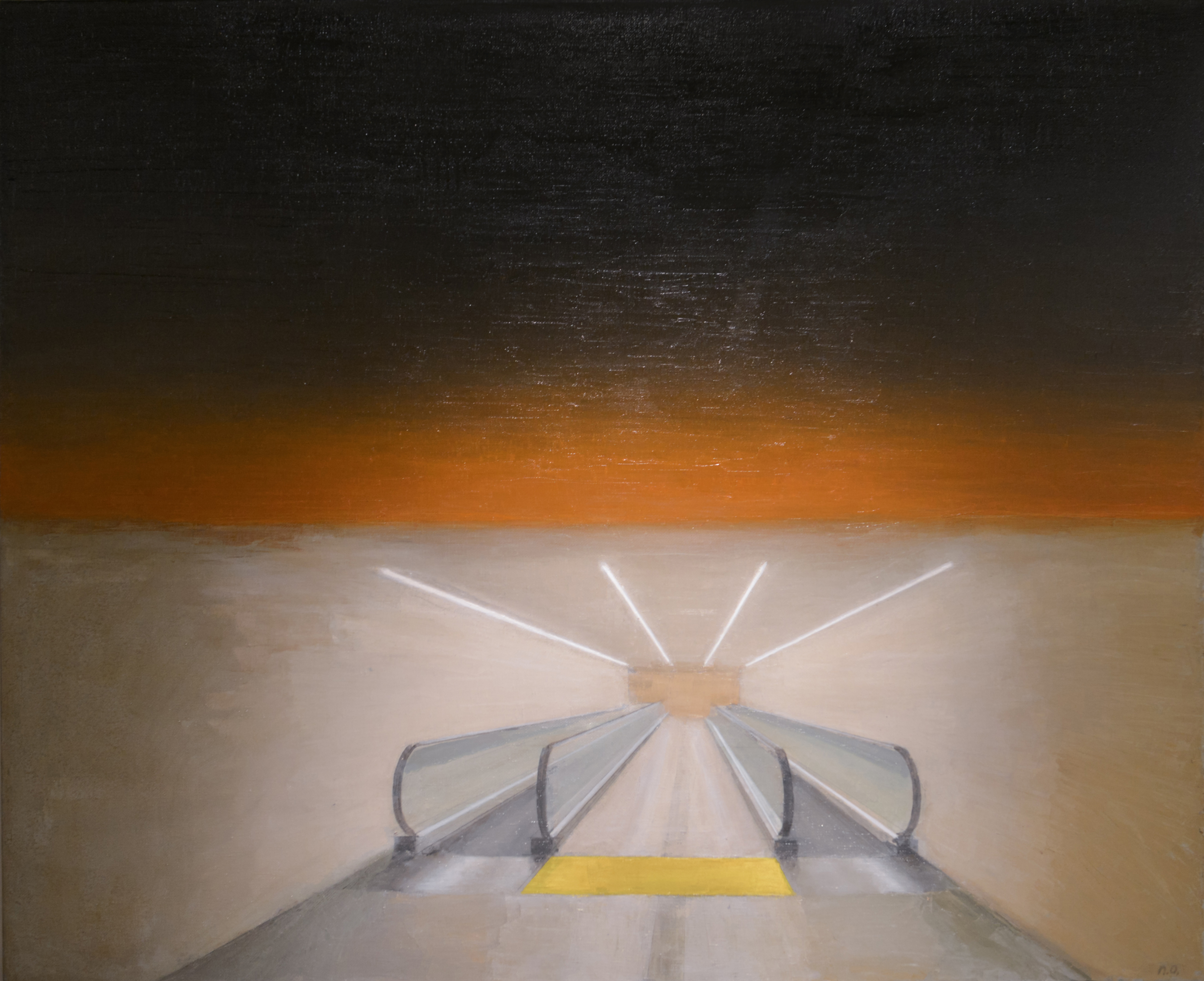 oil on canvas, 130x170cm The State Russian Museum